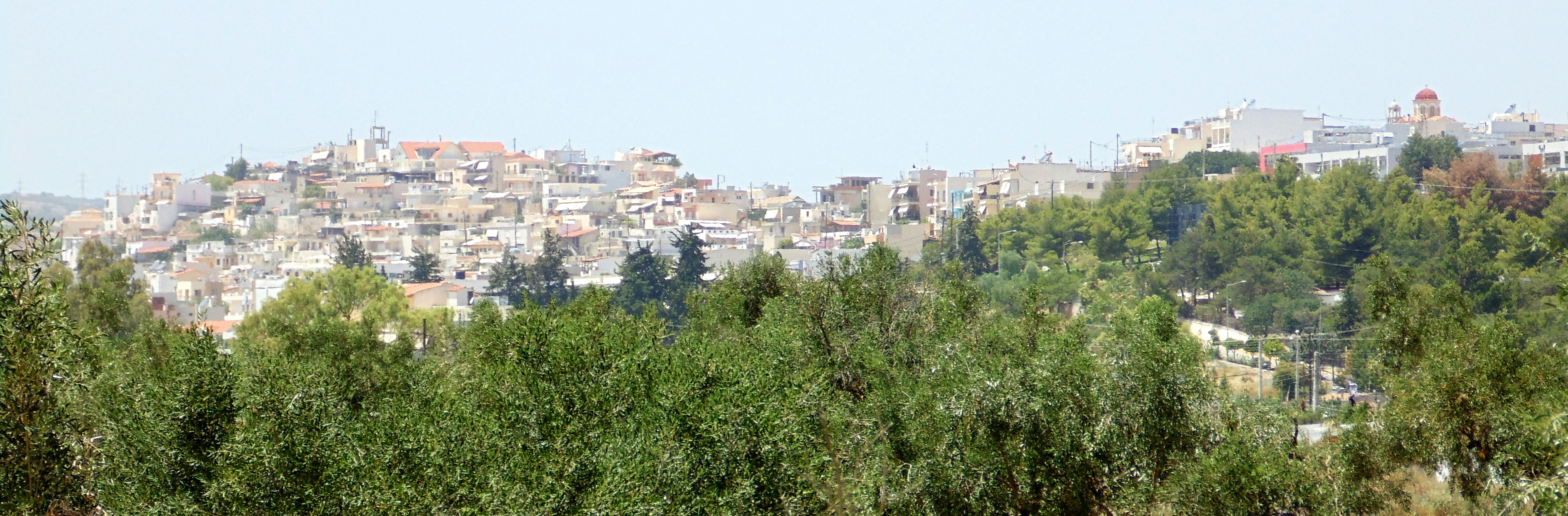 General View of Megara